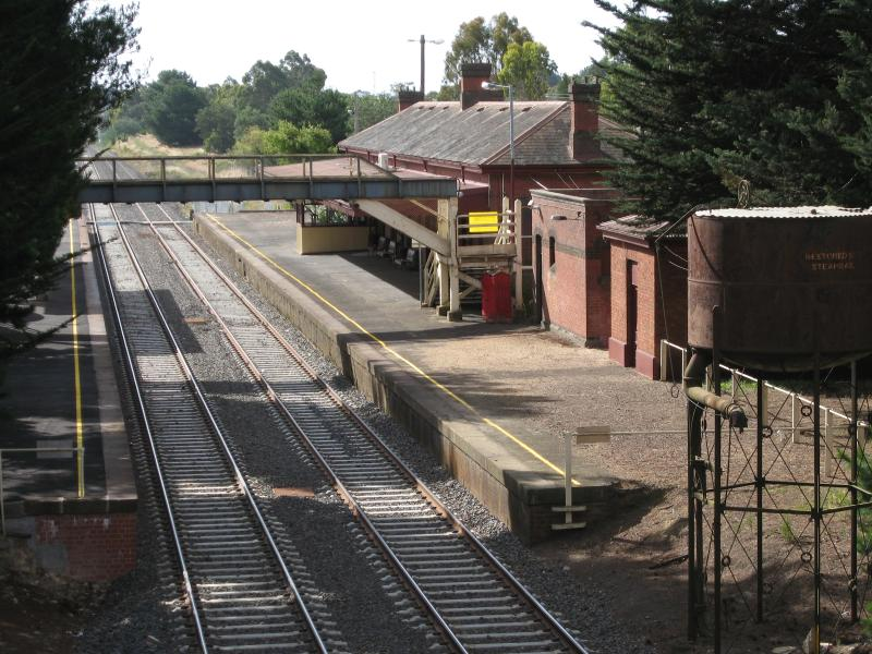 A top view of woodend train station